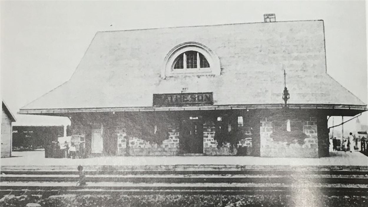 front view of the original Matheson station.